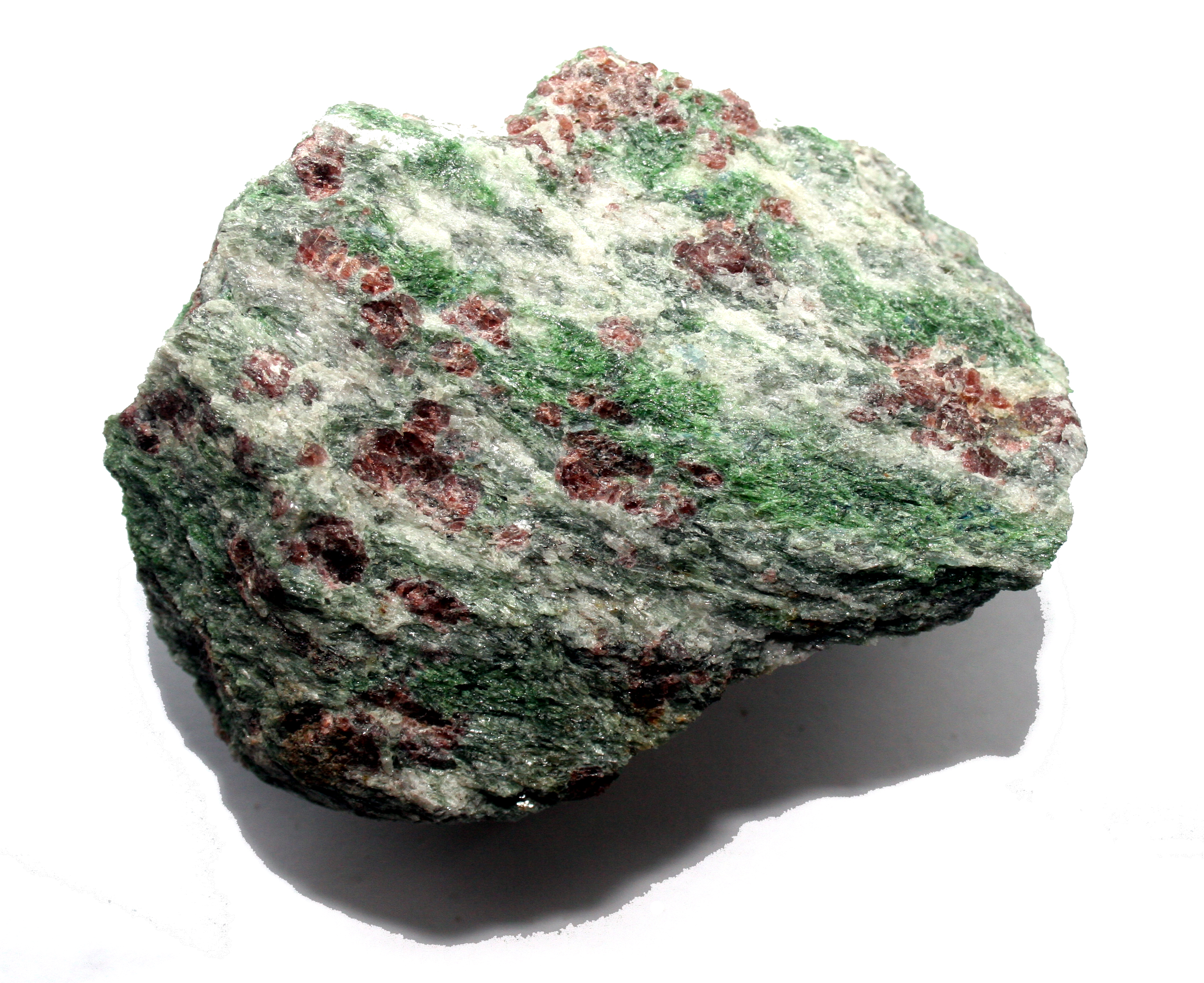 Almenning, Norway. The red-brown mineral is garnet, green omphacite and white quartz. Formed at temperature of about 600°C and pressures of 25 kbar (depth 60-70 km) Here's a paper on them: fs/Cuthbert_... Bought from Northern Geological Supplies for £12, but they do sell little ones 2x2" at £2.40 !